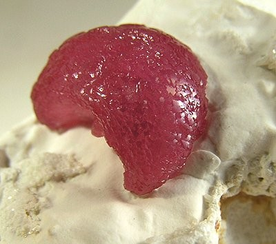 Elbaite Locality: Momeik, Mogok, Sagaing District, Mandalay Division, Burma (Myanmar) (Locality at ) Size: 7.5 x 5.4 x 3.2 cm. Have you ever seen anything like this before? It is a GLOWING, lustrous, ruby-colored elbaite tourmaline that has formed in a crescent shape, isolated on a chalky matrix - incredibly dramatic as well as being rare.